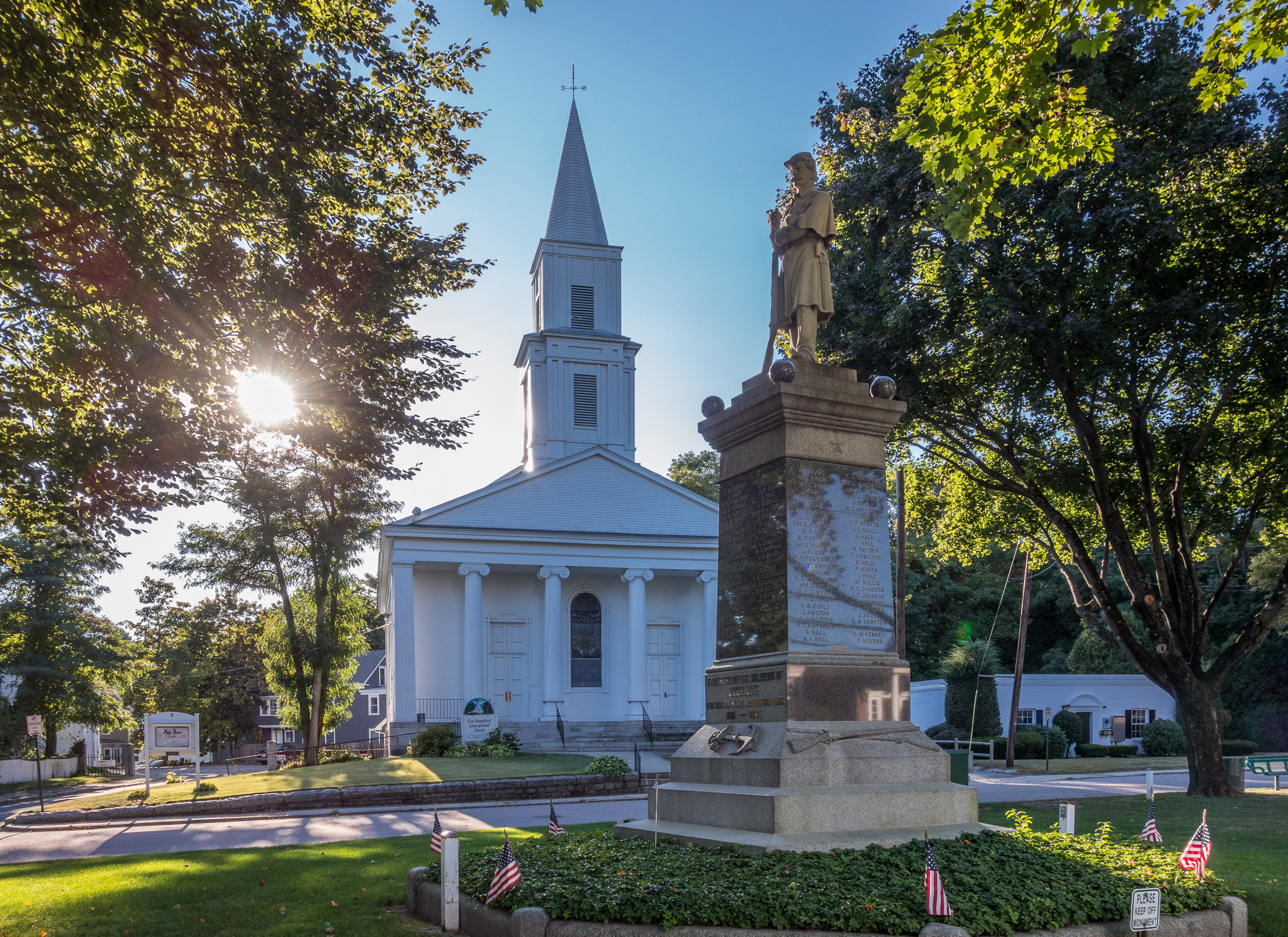 Uxbridge Common District, Main, Court, and Douglas Sts.